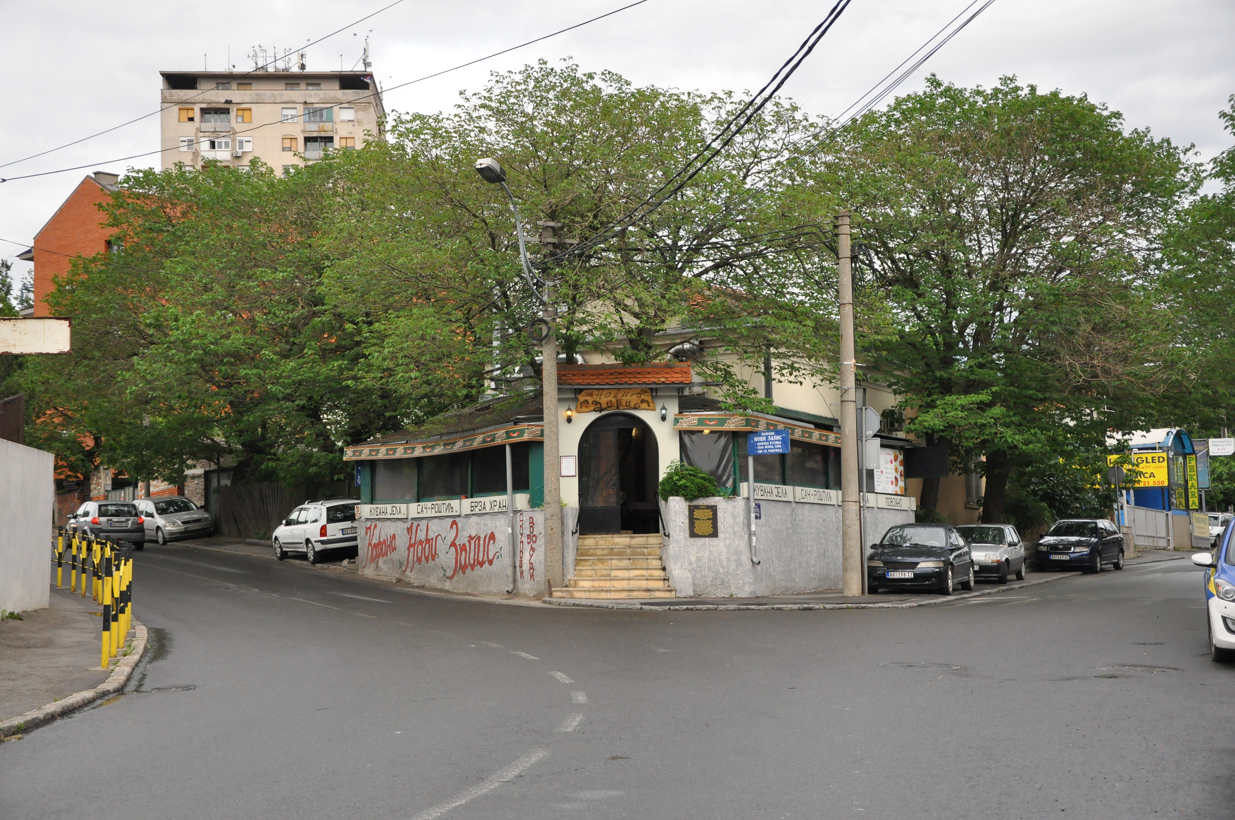 Zapis - Sacred Tree in municipality Zvezdara, Grad Beograd, Serbia Srpski (latinica): Zapis u restoranu Novi Zapis, Gradska opština Zvezdara, Grad Beograd, Srbija Српски (ћирилица): Запис у ресторану Нови Запис - Градска општина Звездара, Град Београд, Србија